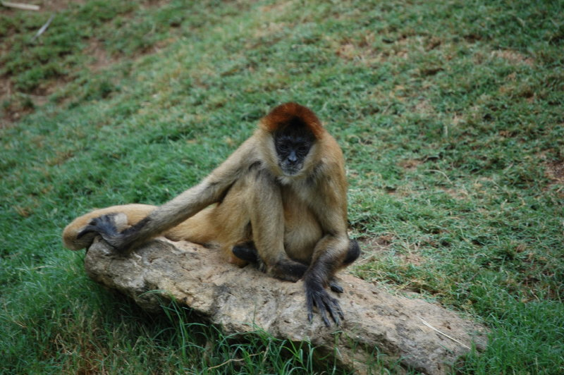 This little fellow stared us down!